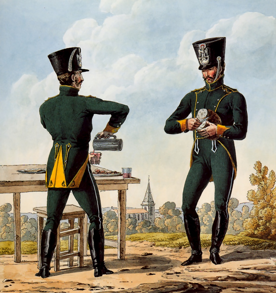 Part of a series chronicling the uniforms of Napoleon's Grande Armée.